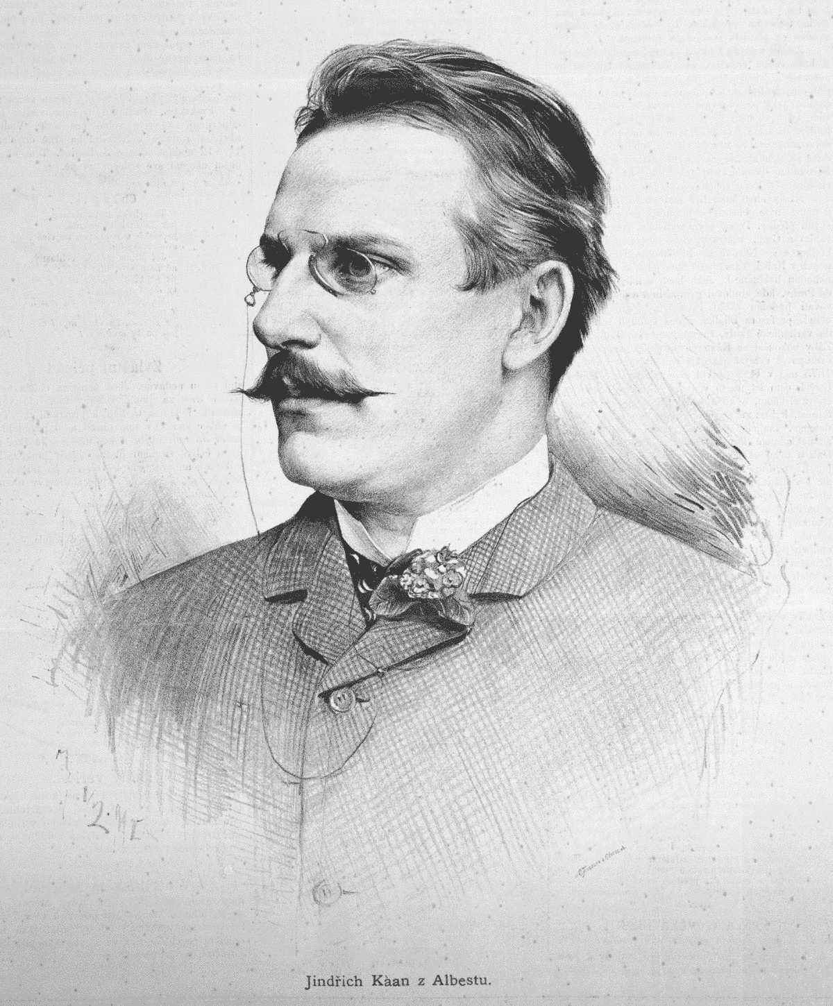 Portrait of Jindřich Kàan z Albestů (1852 - 1926), Czech composer.